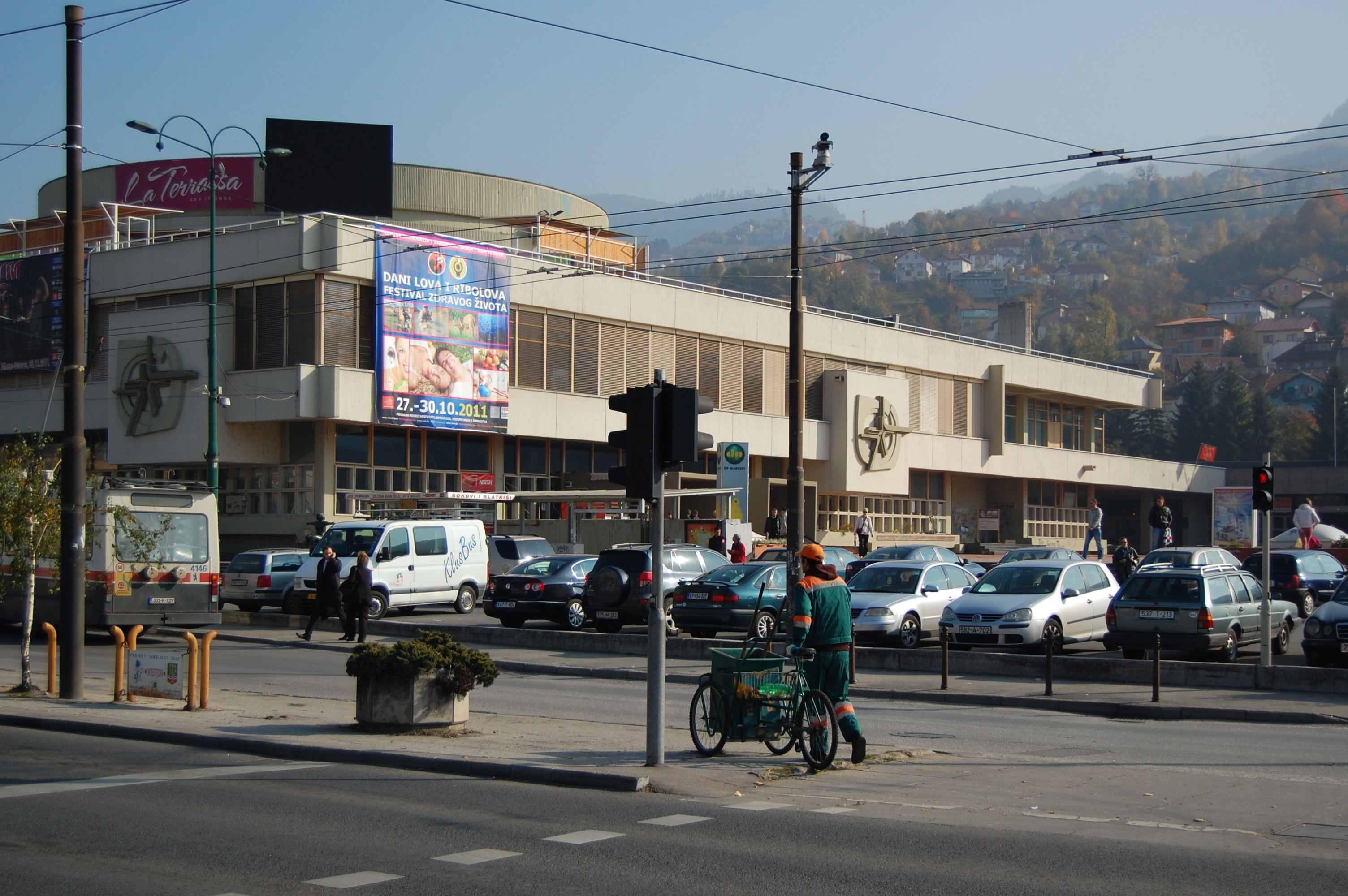 Trolleybus line at Skenderija in Sarajevo